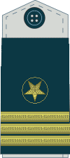 Serbian military ranks and insignia